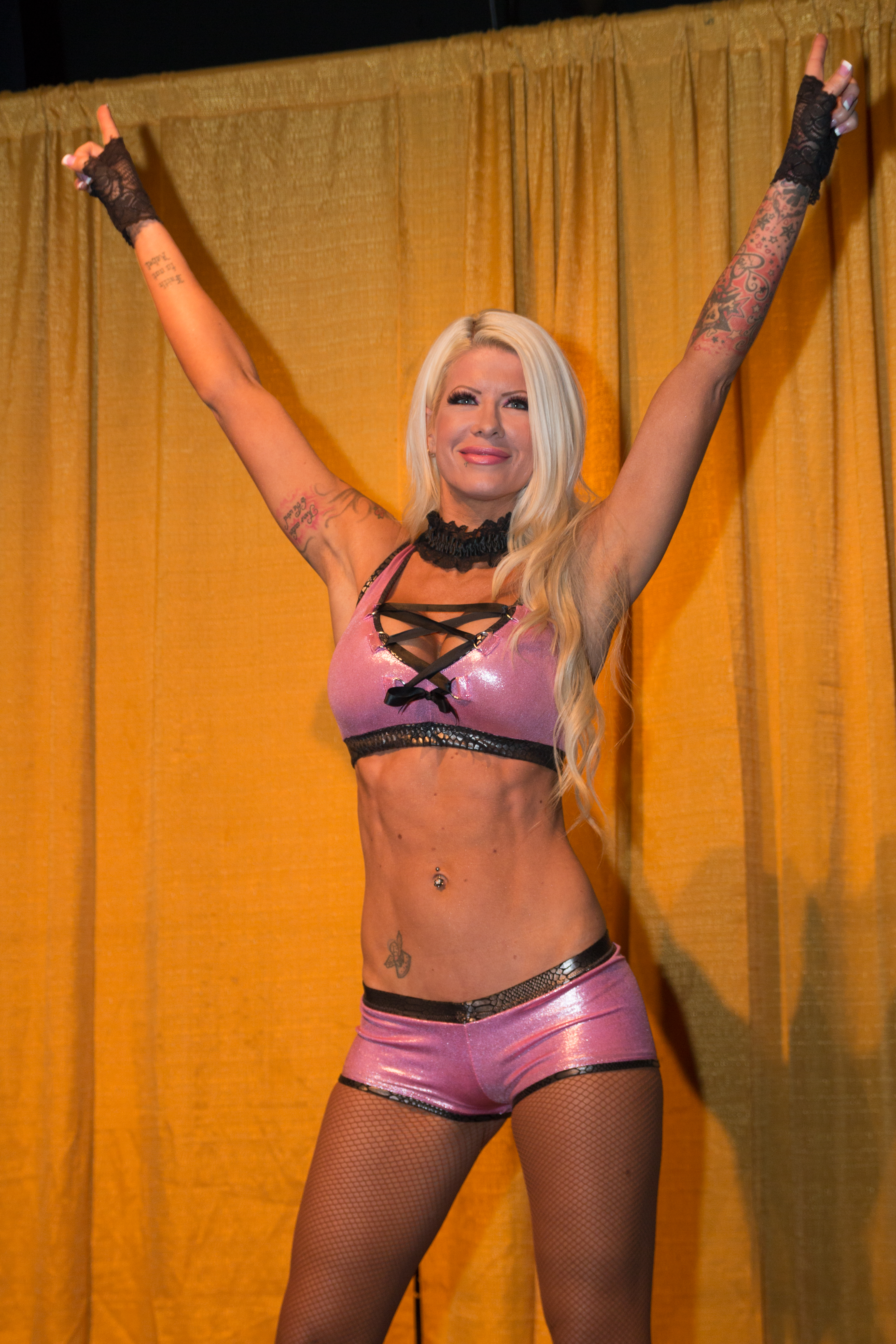 Independent wrestler Angelina Love making her entrance at a Squared Circle show in Whitby, ON